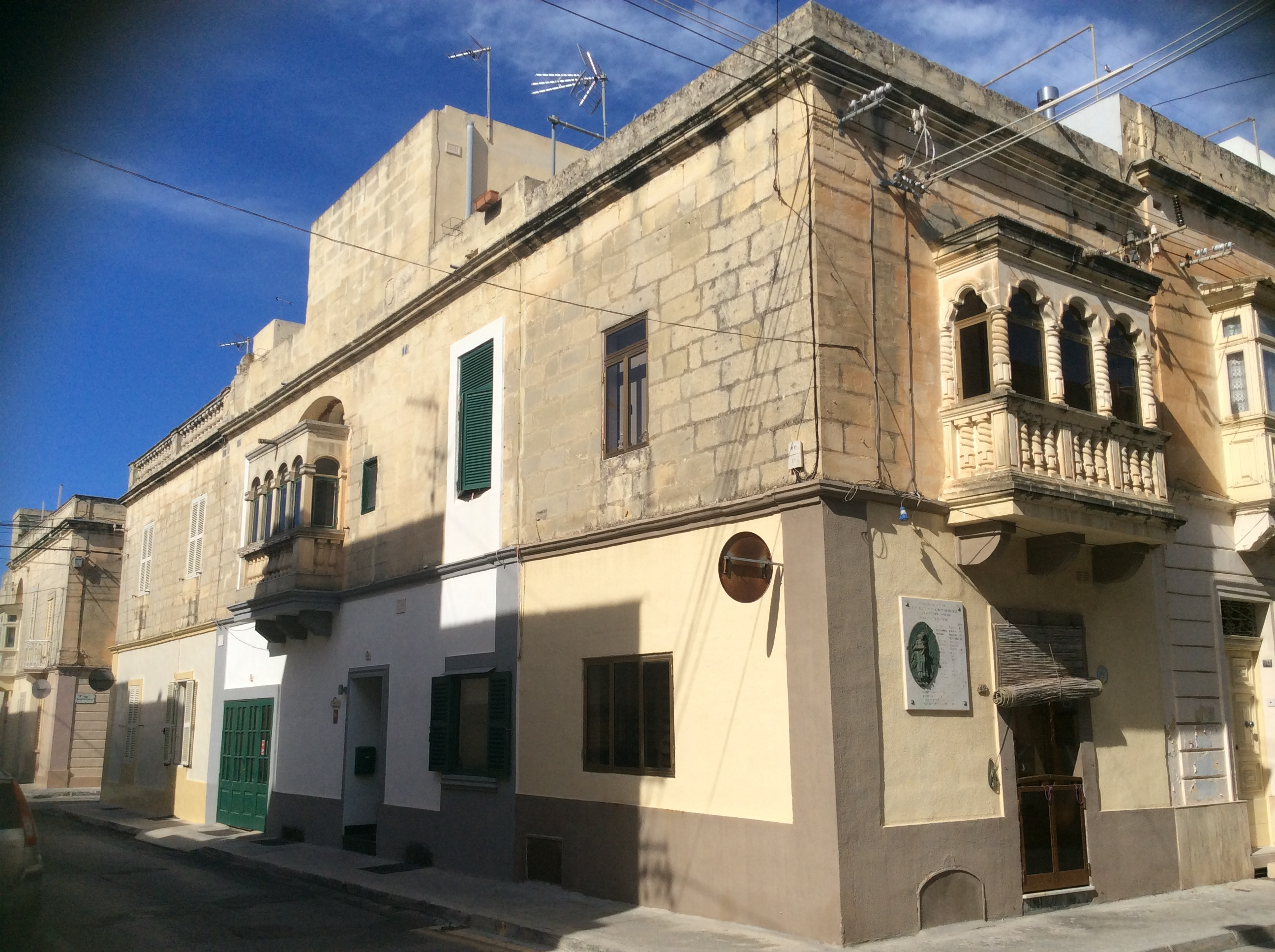 Rabat walk 2017